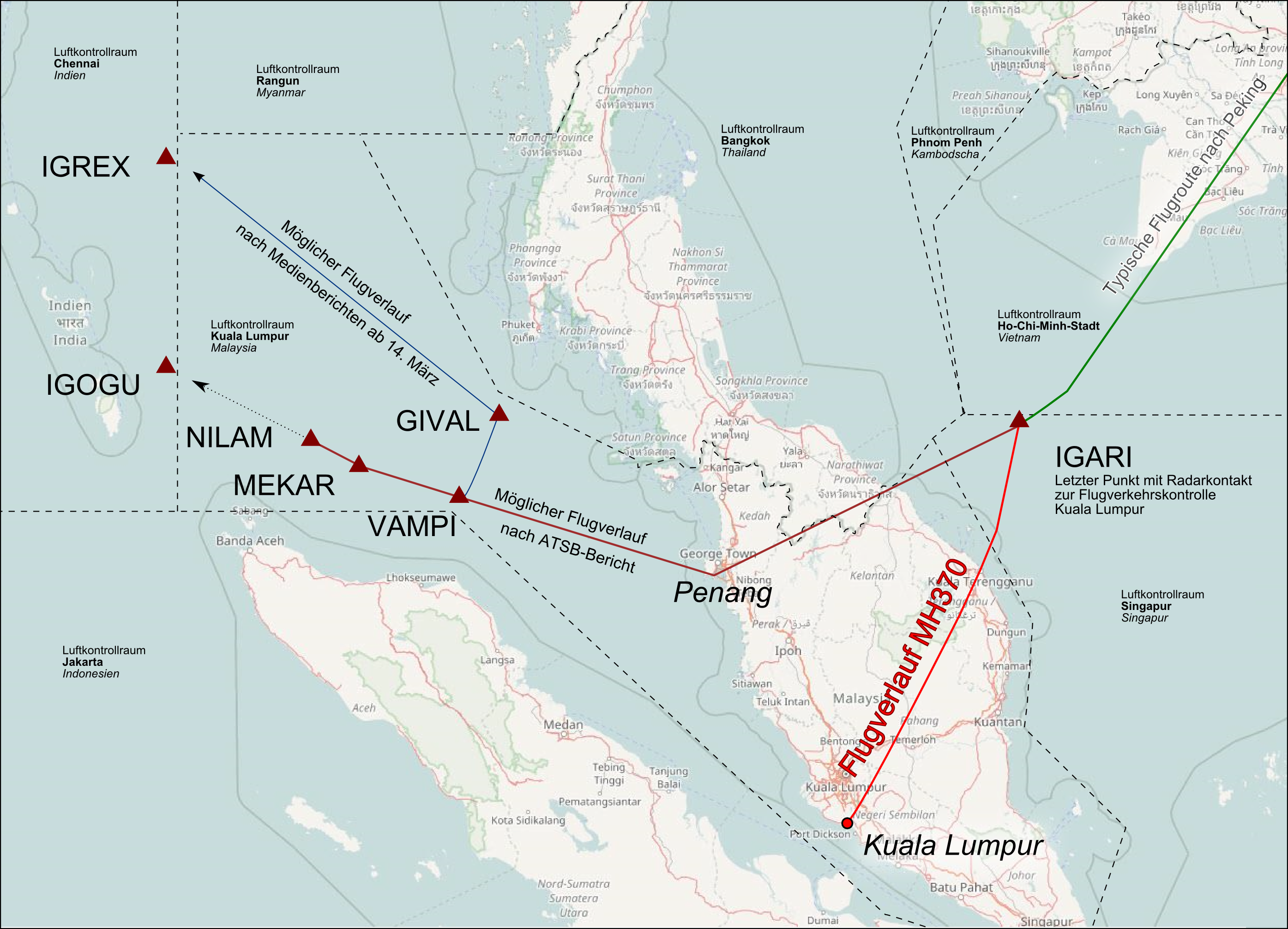 Map of civil aviation waypoint and possible routes of Malaysia Airlines Flight 370 (German).